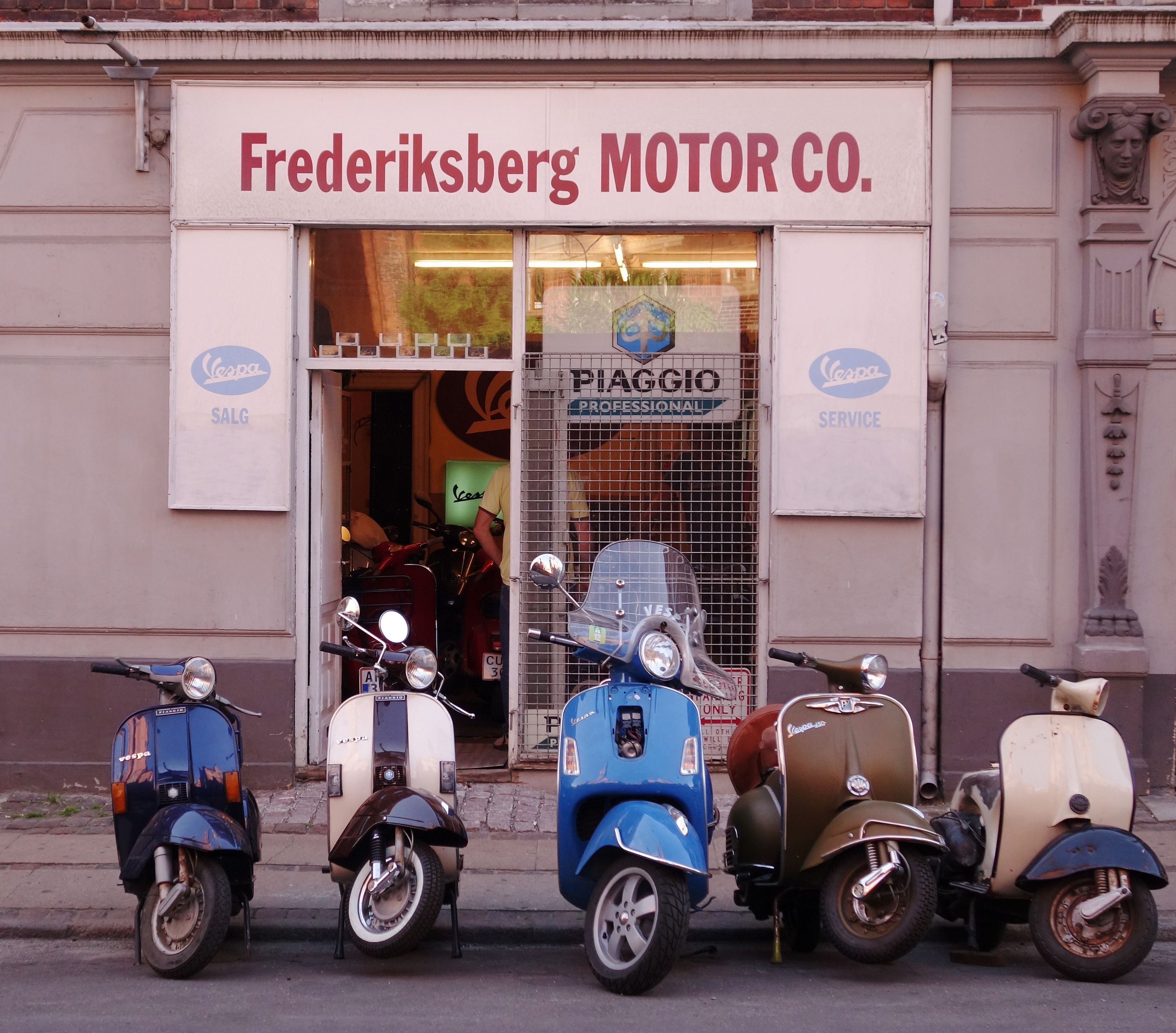 The Vespa shop